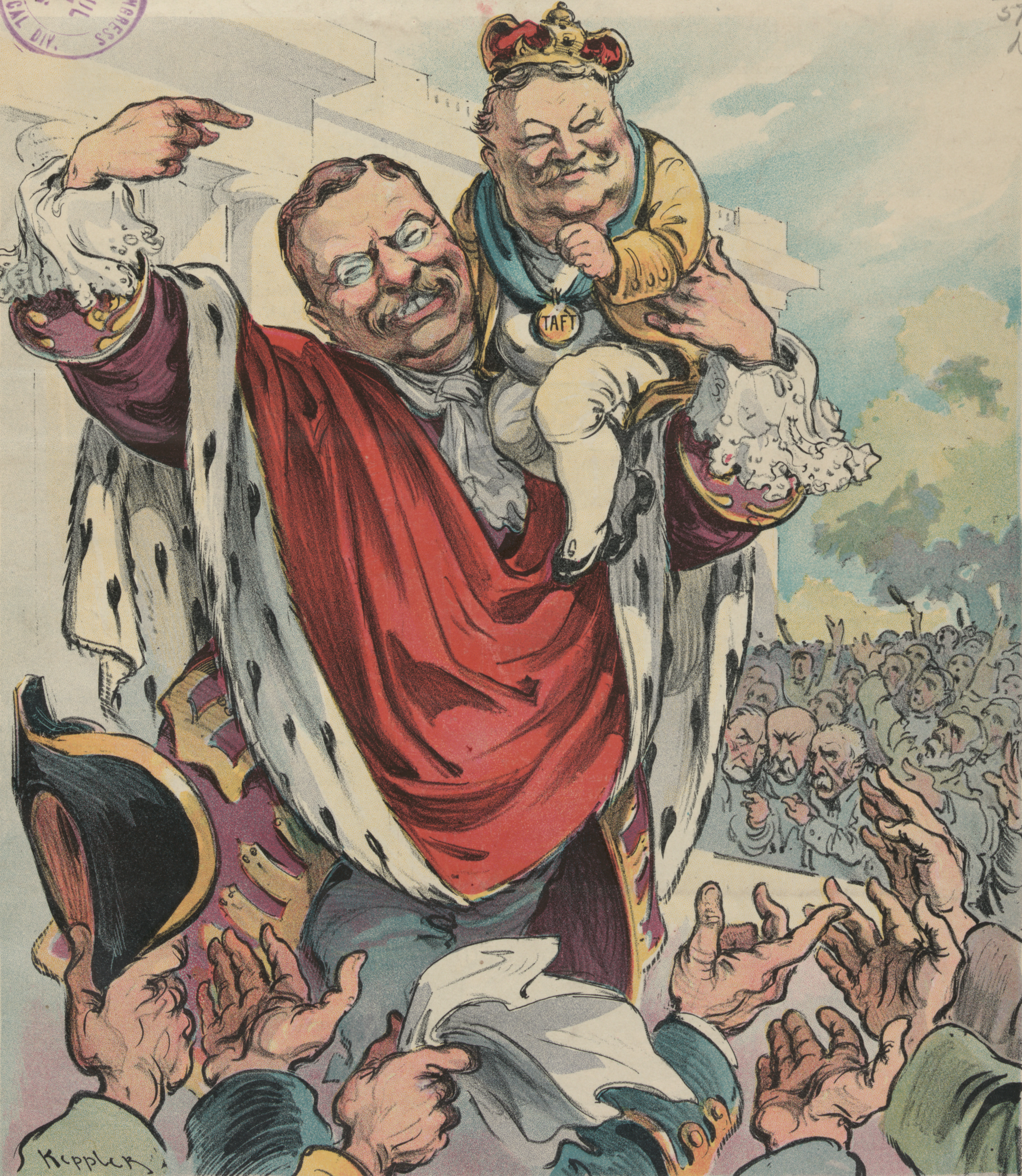 Puck magazine cover, August 1, 1906. President Theodore Roosevelt introduces his chosen successor, Secretary of War William Howard Taft, to the cheering crowd. Republican notables such as Vice President Charles Fairbanks and Speaker Joseph Cannon are seen in the first row.